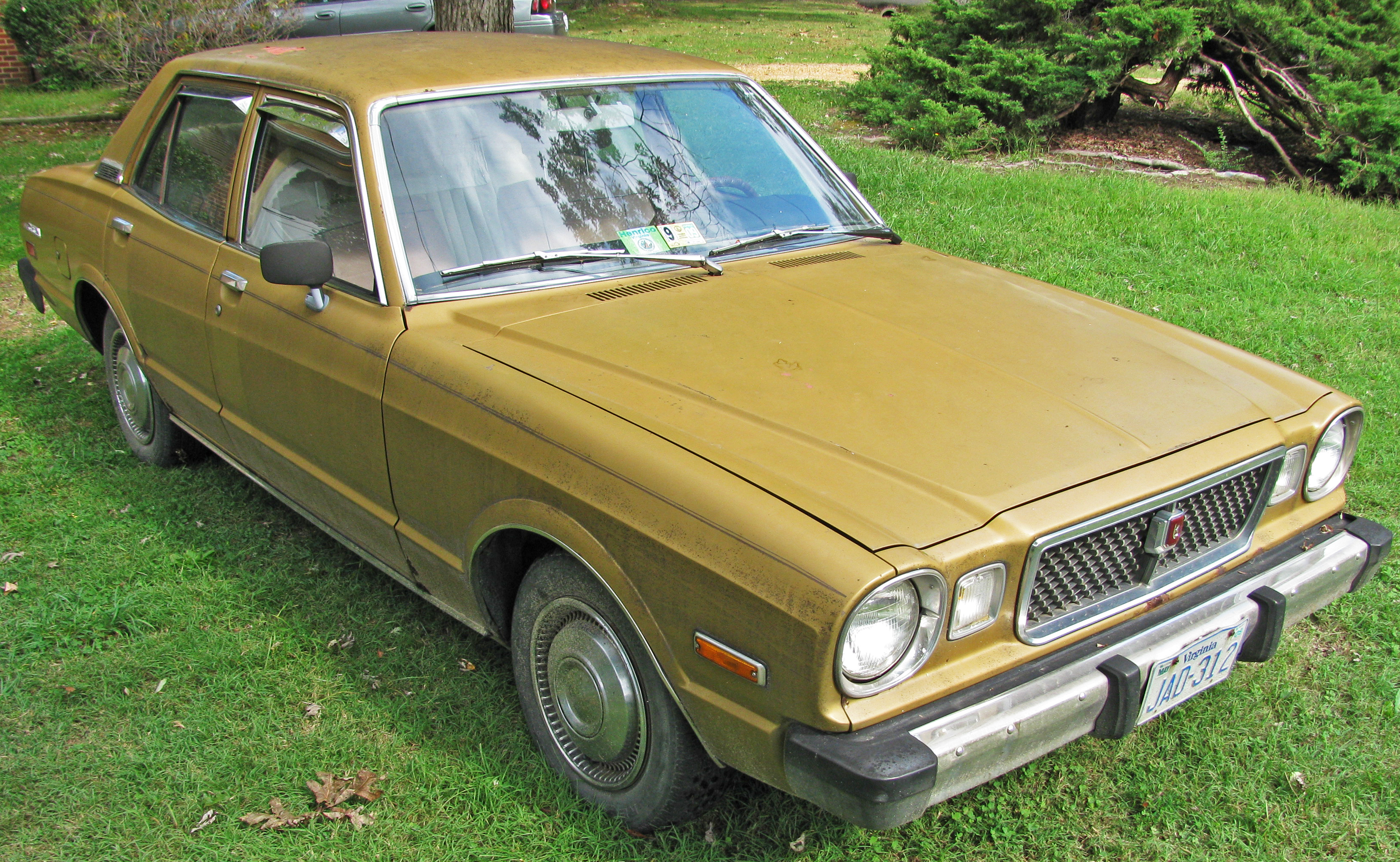 1978 Toyota Cressida MX32